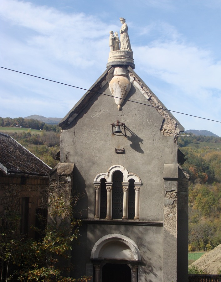 Neglected chapel along the french "route Napoléon" (joining Grenoble to Gap), 5 kilometers south of La Mure, Isère ; the statue on the top is showing Our Lady of la Salette with the two children.